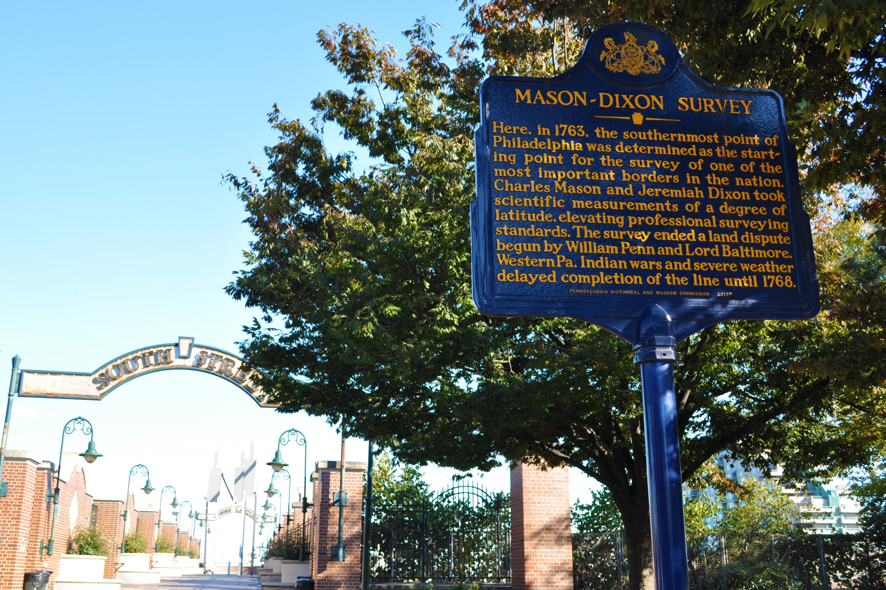 Mason-Dixon Survey. Here, in 1763, the southernmost point of Philadelphia was determined as the starting point for the survey of one of the most important borders in the nation. Charles Mason and Jeremiah Dixon took scientific measurements of a degree of latitude, elevating professional surveying standards. The survey ended a land dispute begun by William Penn and Lord Baltimore. Western Pa. Indian wars and severe weather delayed completion of the line until 1768. (Historical Marker at Front and South Sts., Philadelphia PA - Pennslvania Historical and Museum Commission 2013)